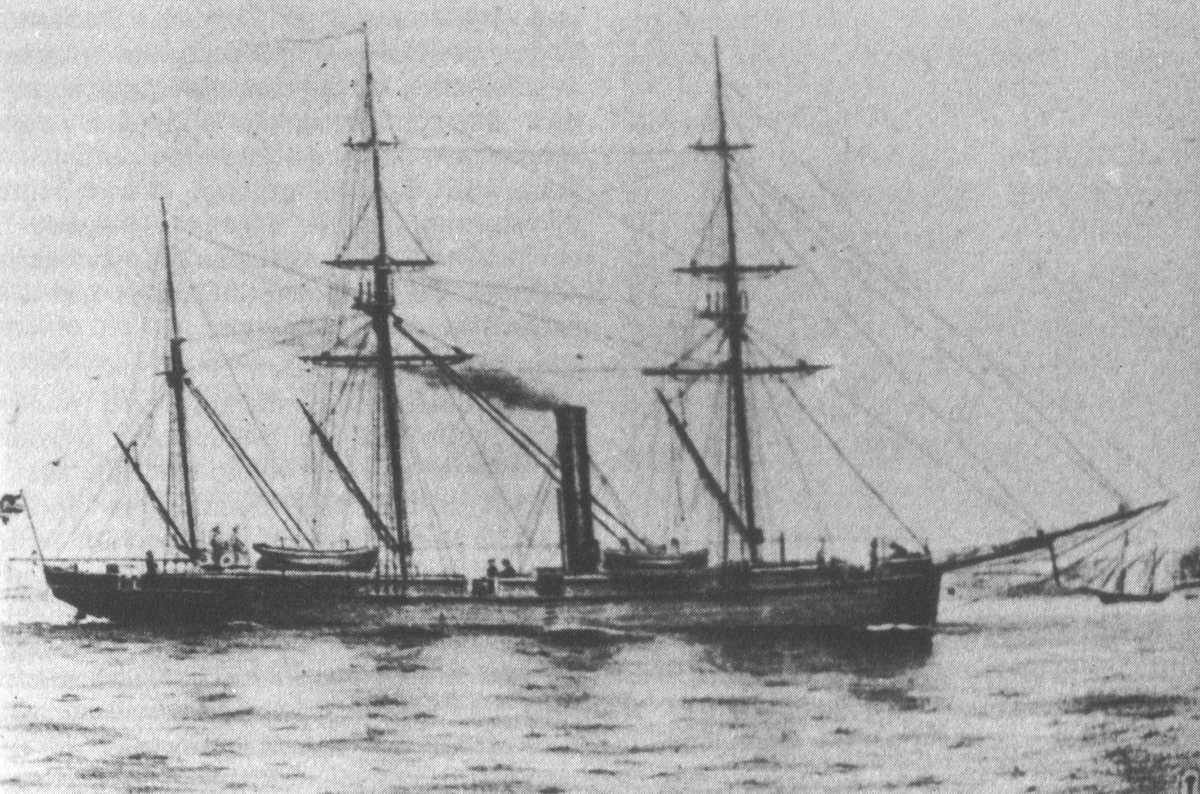 The German gunboat SMS Meteor (launched 1865)